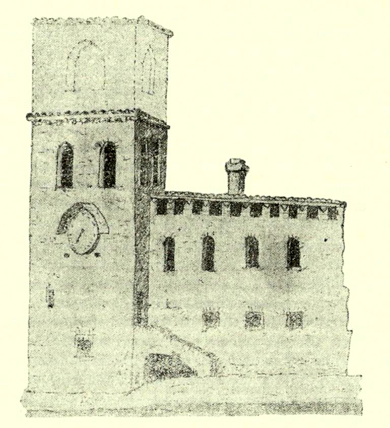 Castel Goffredo, reconstruction of the civic tower in the year 1492.